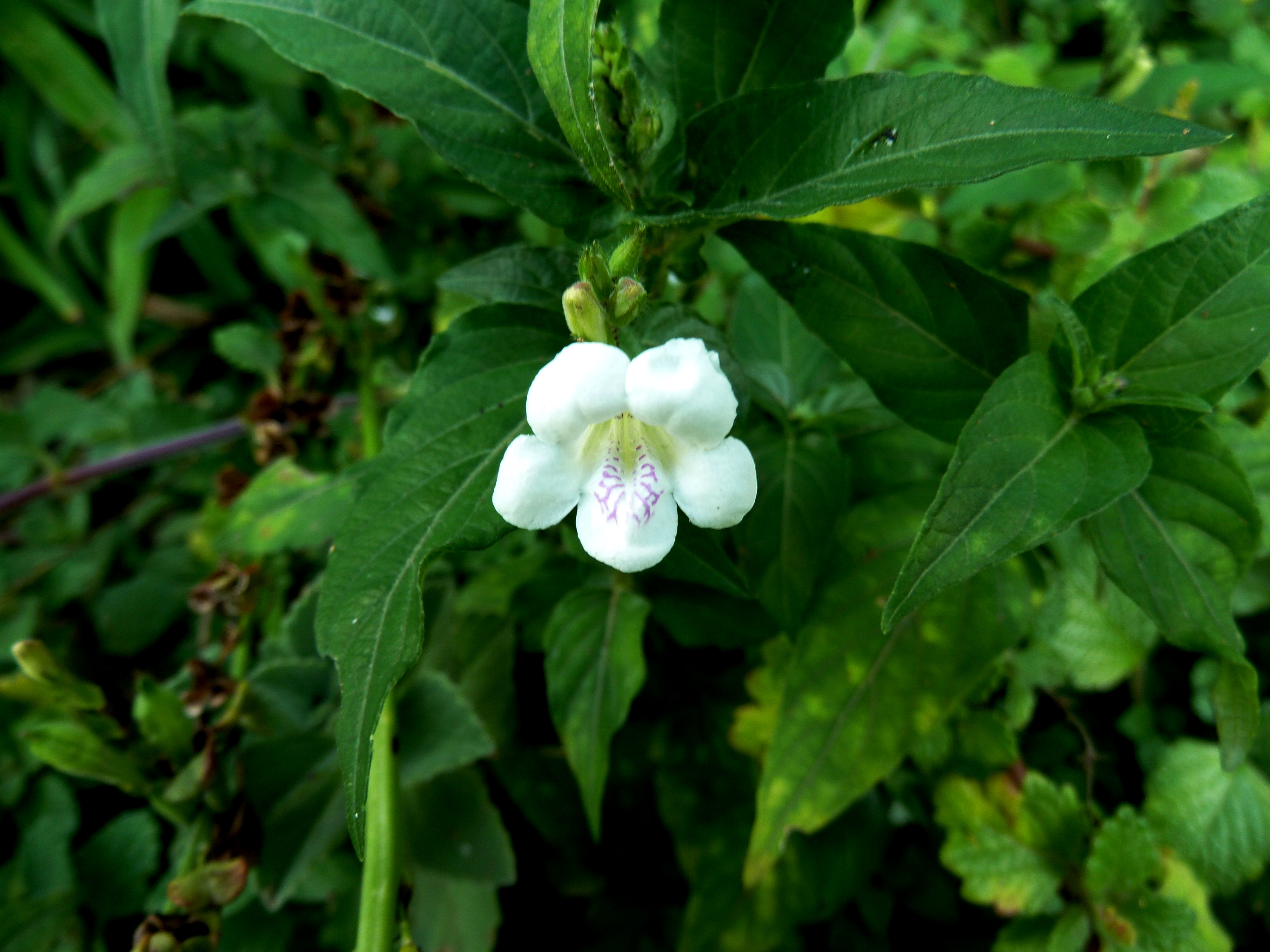 Asystasia gangetica at the Walter Sisulu National Botanical Gardens, South Africa